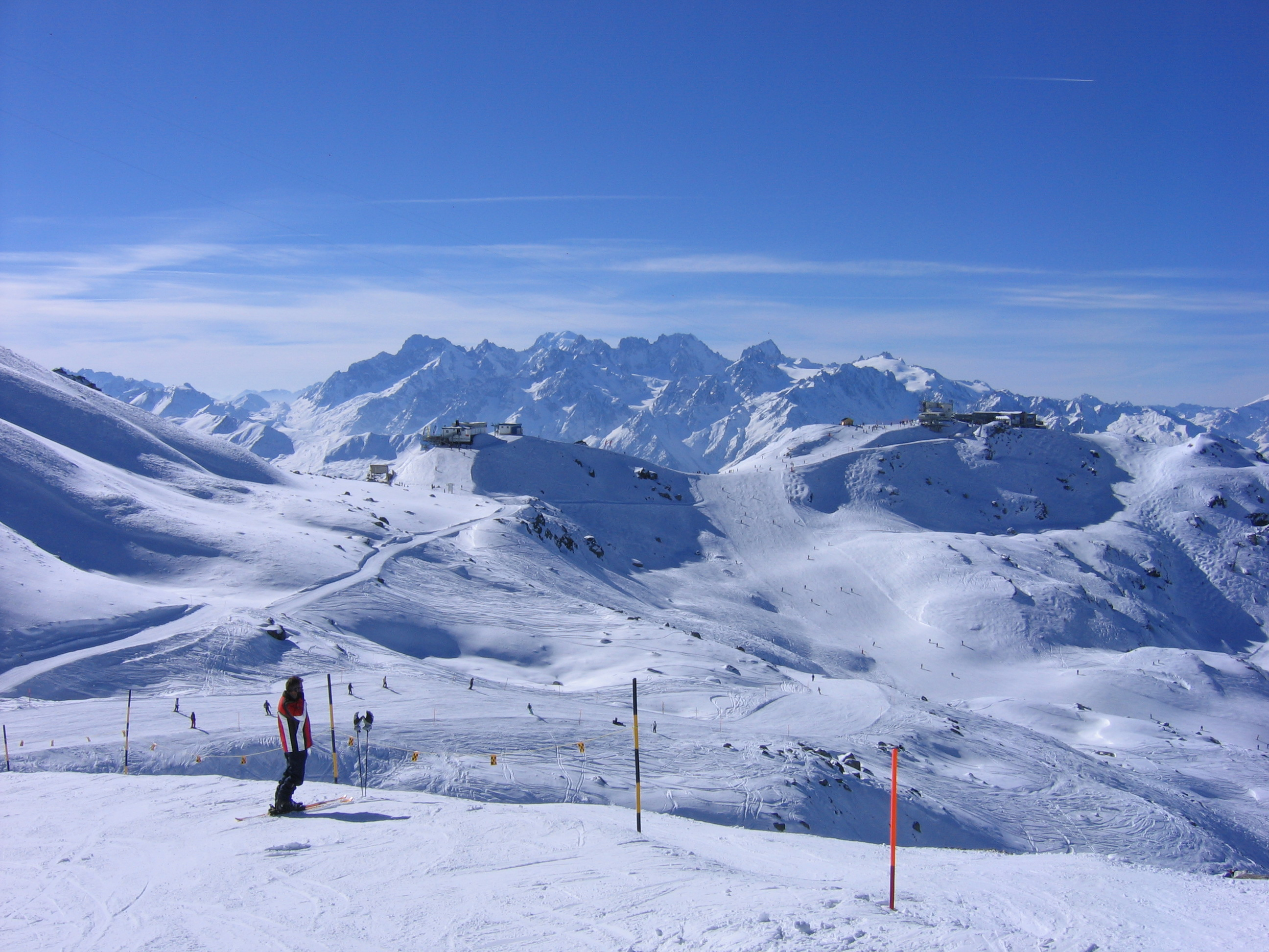 Verbier, canton Valais